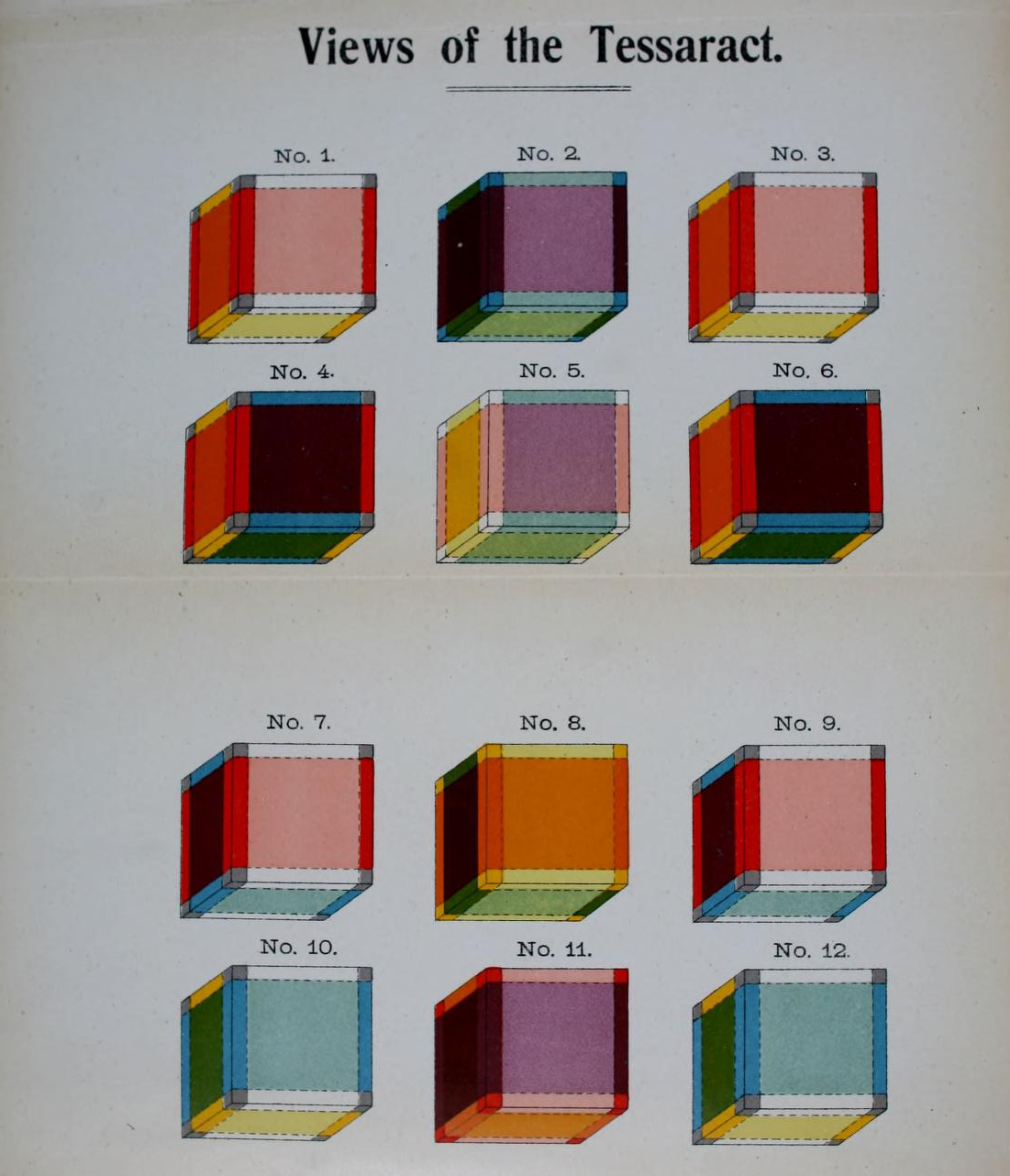 Frontispiece to British mathematician Charles Howard Hinton’s (1853 - 30 April 1907) book The Fourth Dimension (London: Swan Sonnenschein & Co. Ltd.; New York:John Lane, both 1904) illustrating the tesseract (his 1888 coinage according to OED), the four-dimensional analog of the cube. Hinton's spelling varied: also known, as here, "tessaract". Image from the Internet Archive copy at